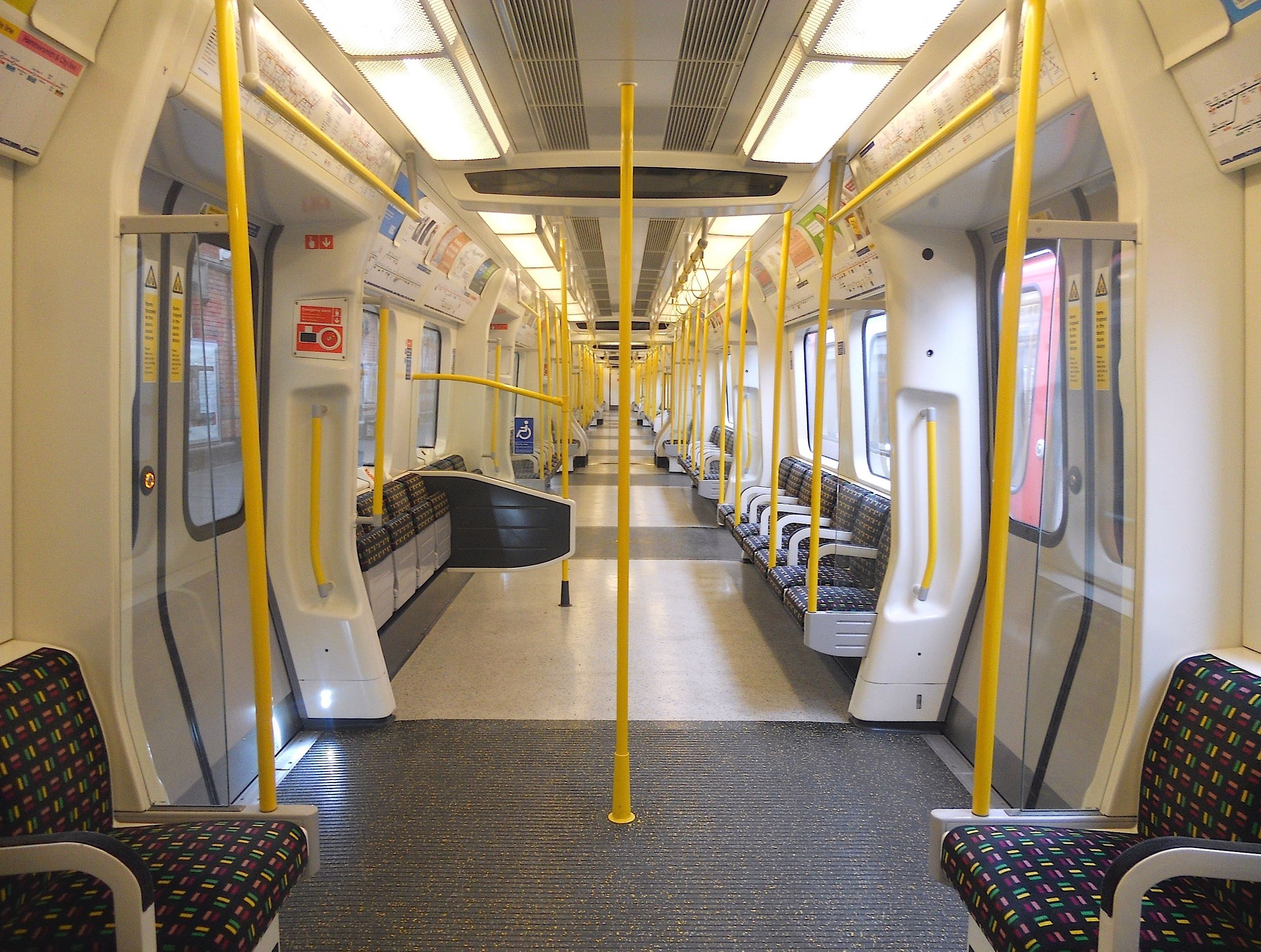 The interior of a London Underground S Stock Circle line train, showing the wheelchair parking places on the left.